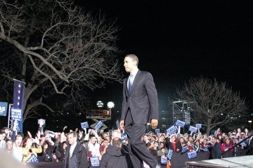 Barack Obama speaking at Sewell Park